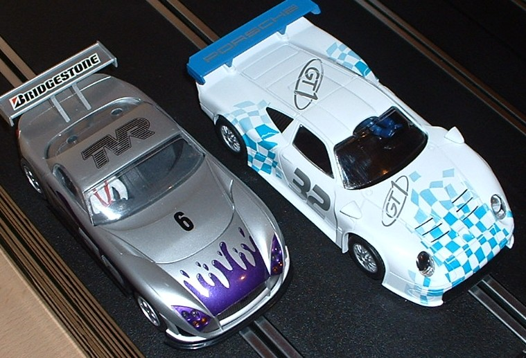 TVR and Porsche 911 GT1 slot cars from Scalextric